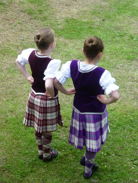 Highland Dance competitors taking a break between performances at the Ceres Games of 2013.